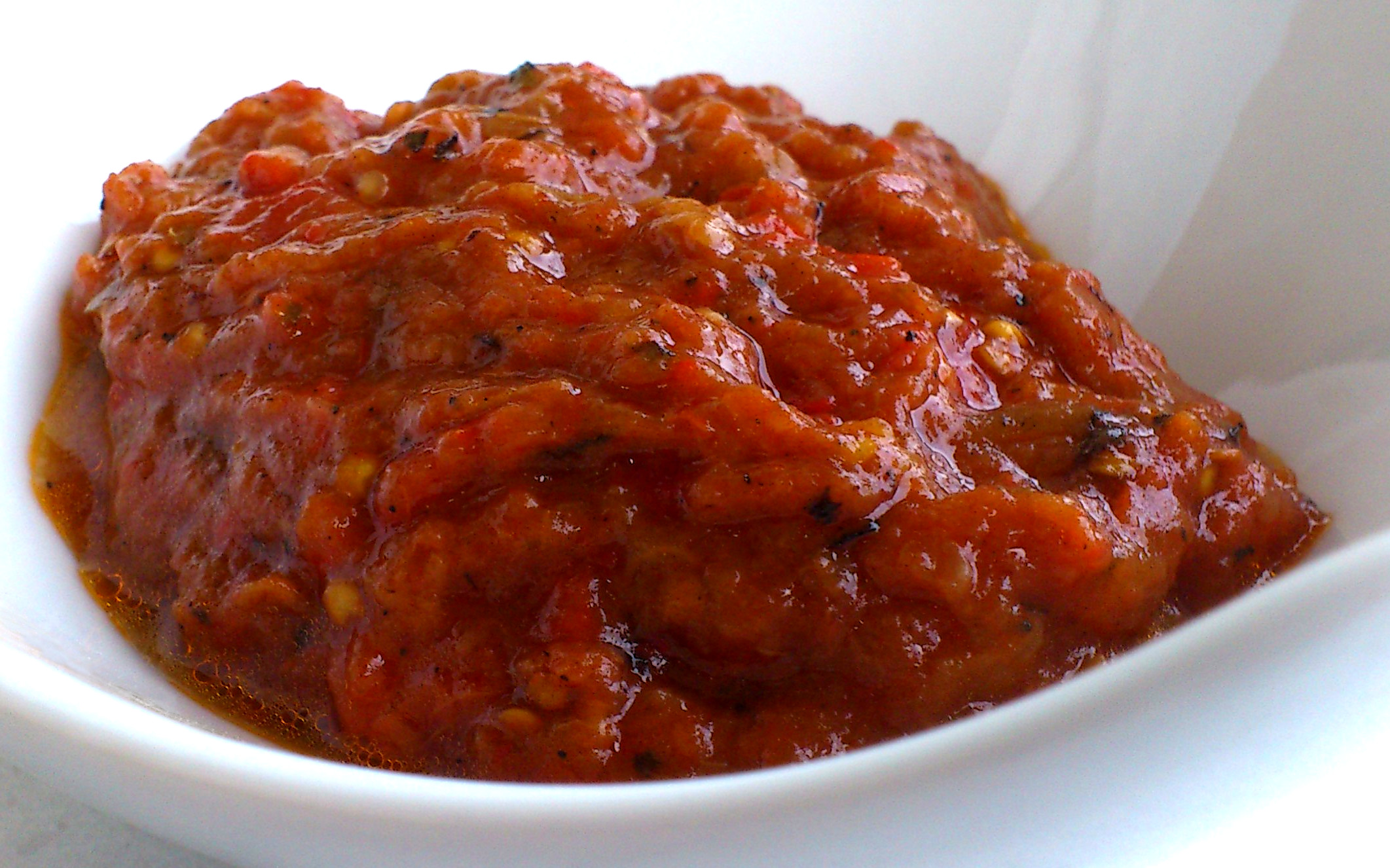 Kyopolou, eggplant caviar mixed with tomatoes and bell peppers